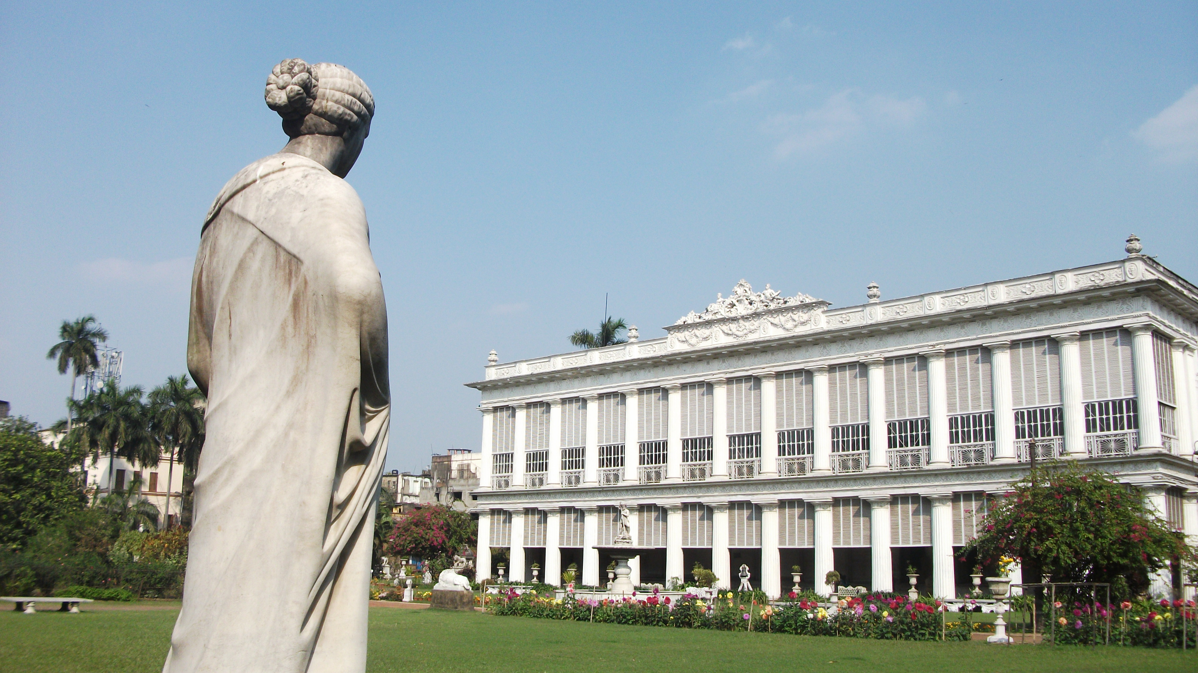 Marble Palace, Shovabazar...